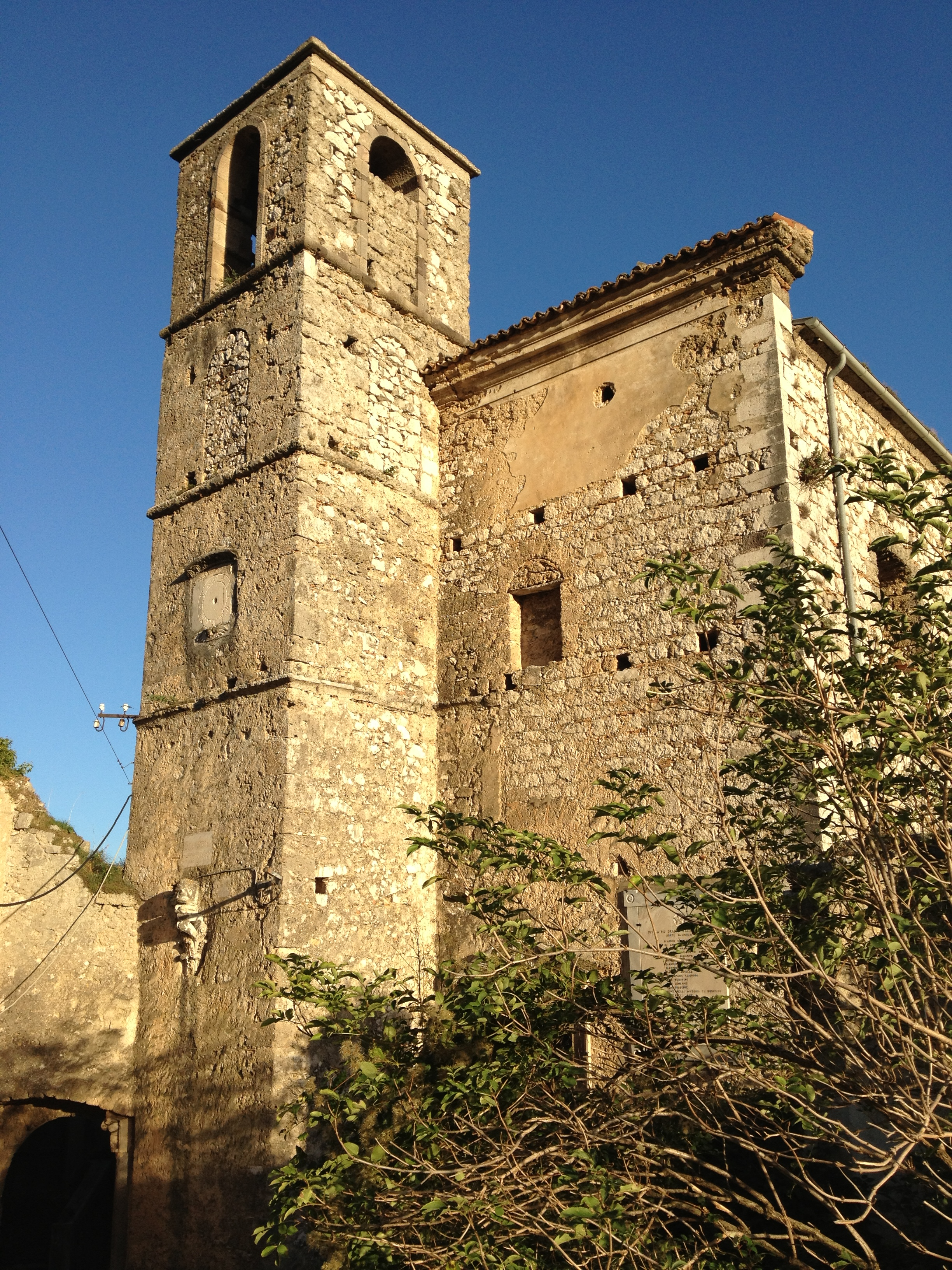 Church of Santa Maria Assunta, located in the lower part of the ancient village of Rocchetta a Volturno; facade